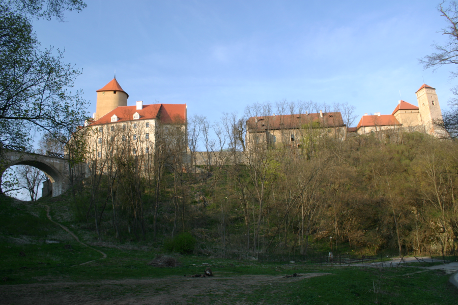 The Veveří castle, photo of the inner castle taken from former English park, April 2006